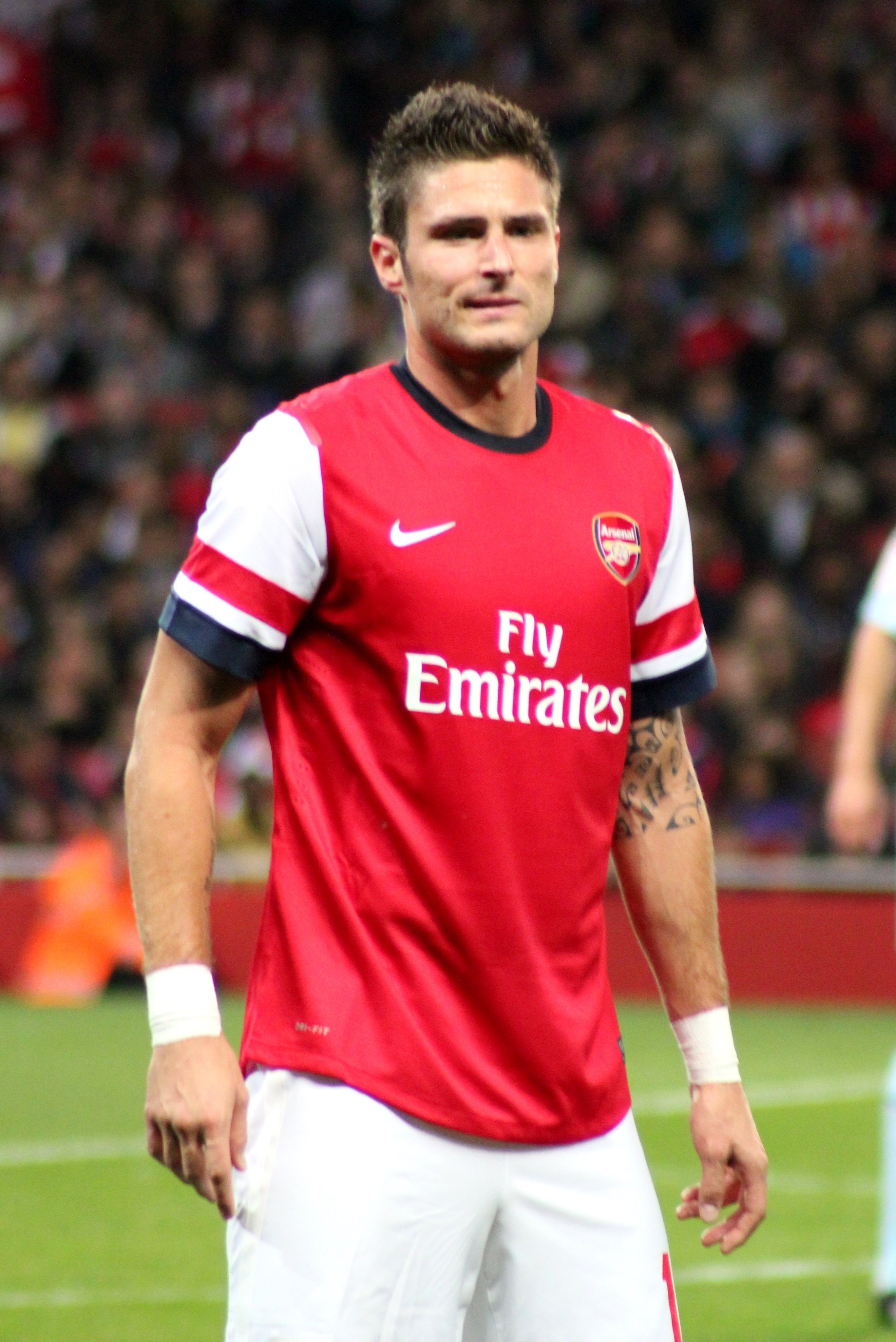 Olivier Grioud